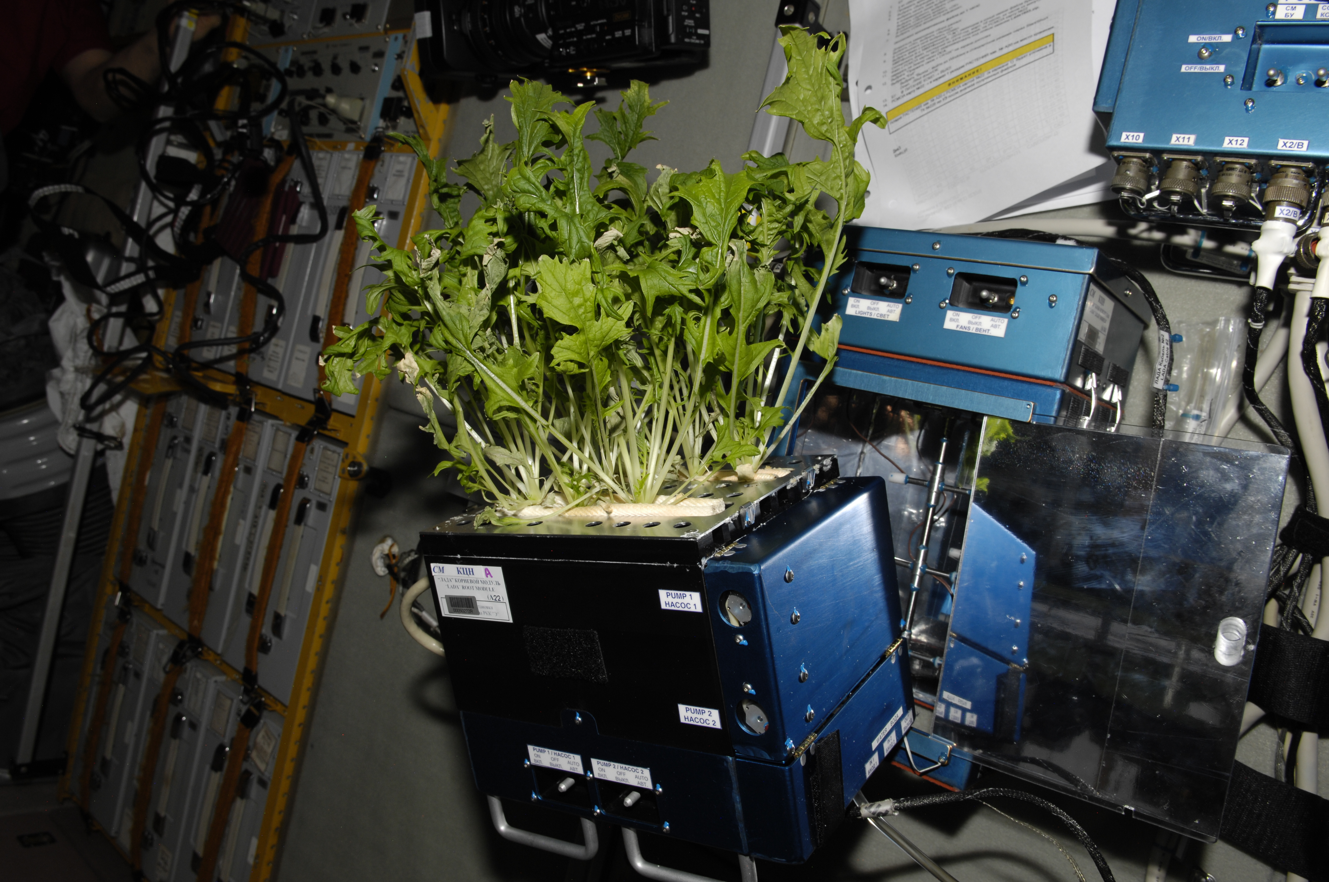 Mizuna lettuce growing aboard the International Space Station before being harvested and frozen for return to Earth.